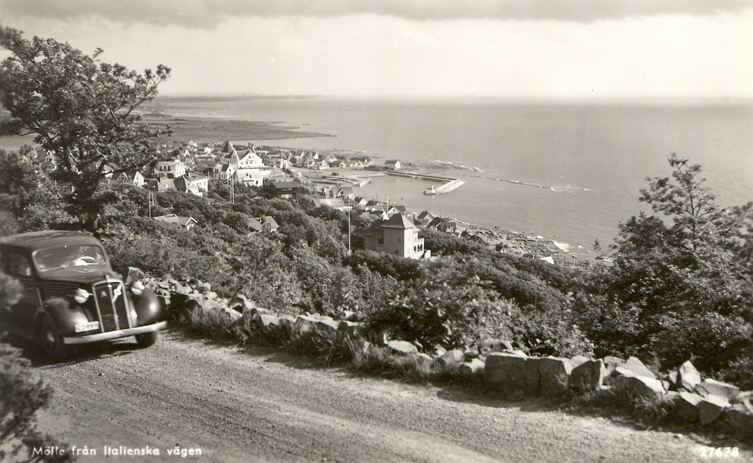 "The Italian Road", Mölle, Sweden